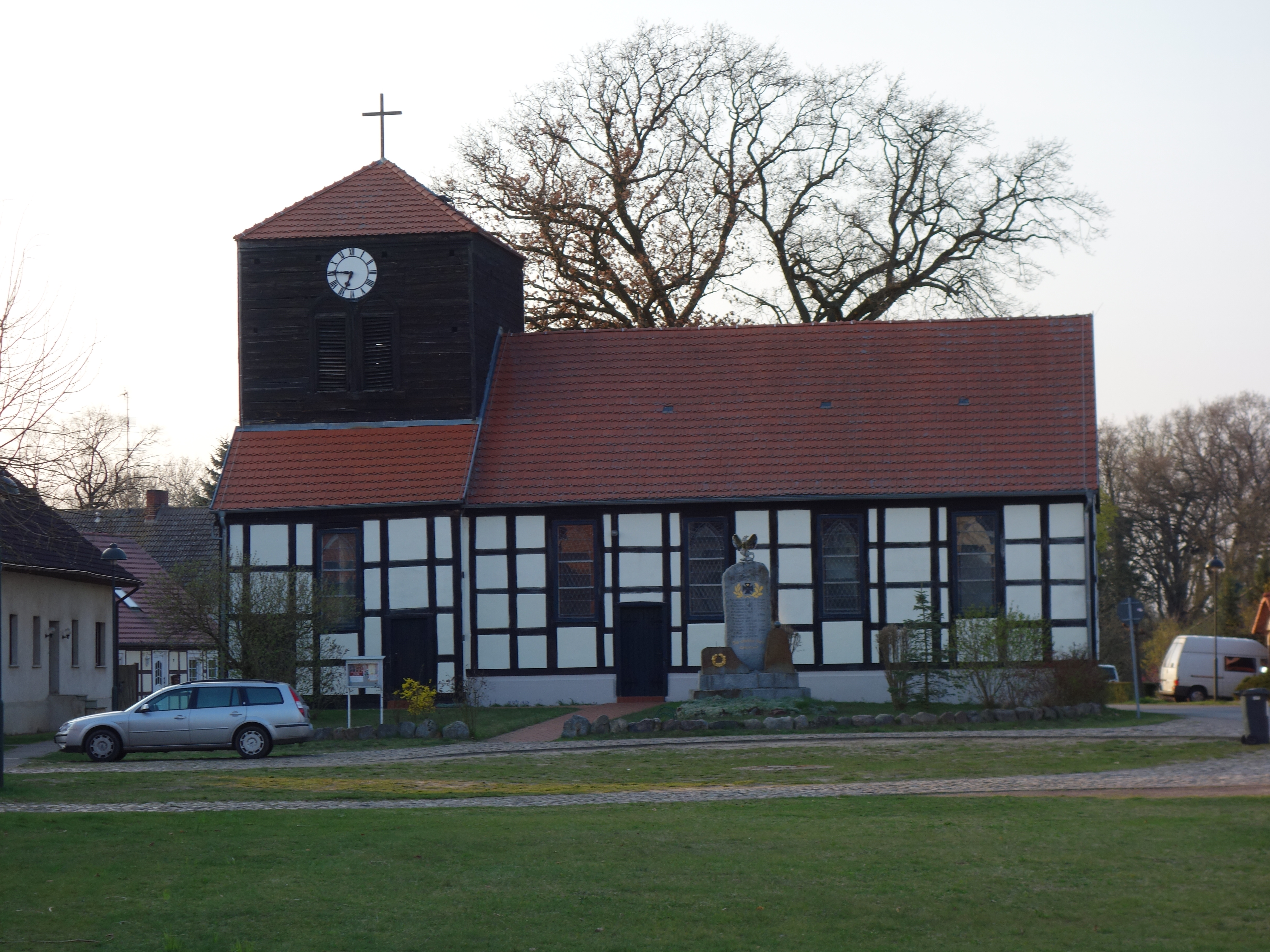 South-south-eastern view of church in Lohm, Zernitz-Lohm municipality, Ostprignitz-Ruppin district, Brandenburg state, Germany